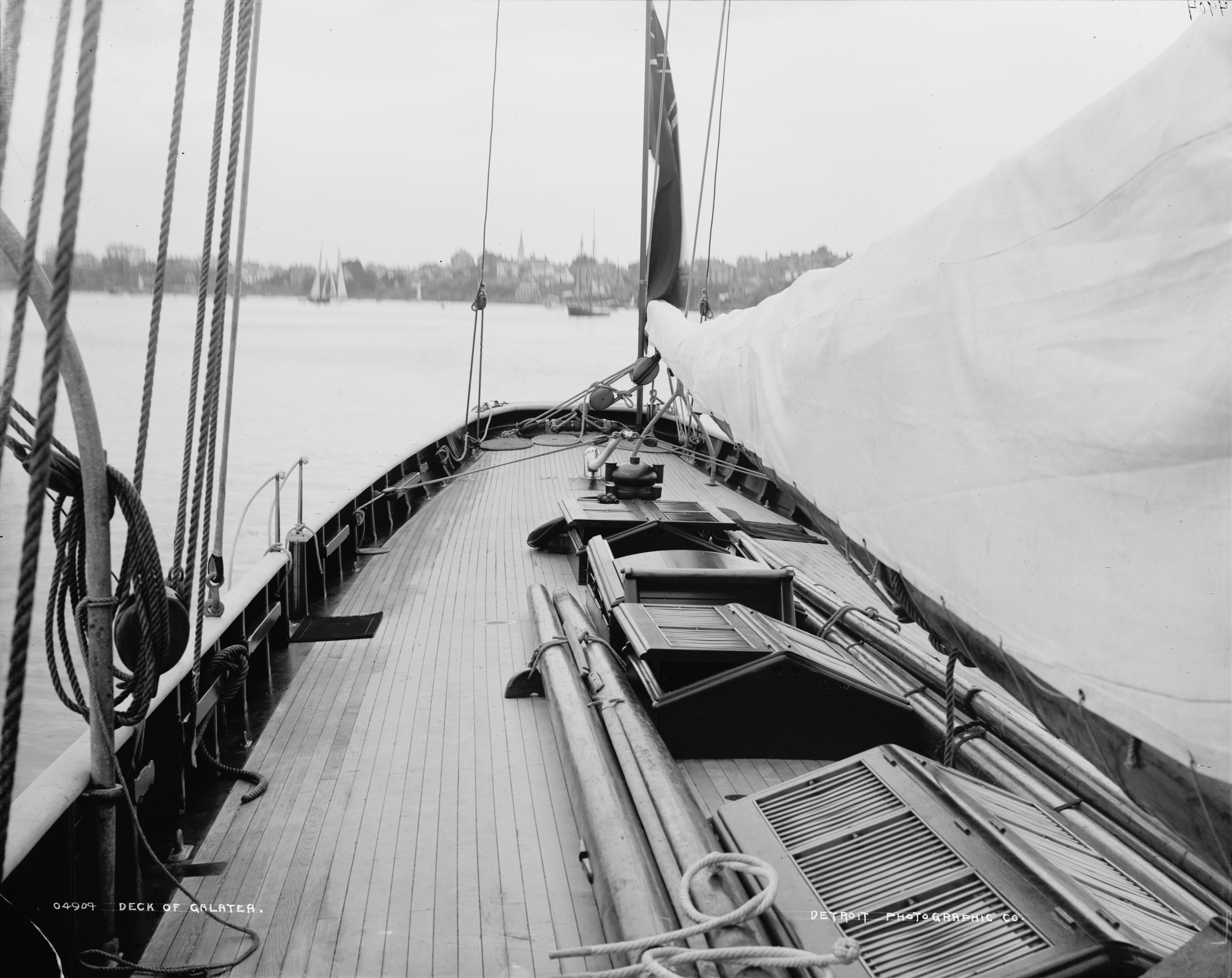 the deck of the cutter Galatea (John Beavor-Webb design, 1885), the 1886 challenger of the America's Cup built at John Reed & Sons' shipyard, Southampton.